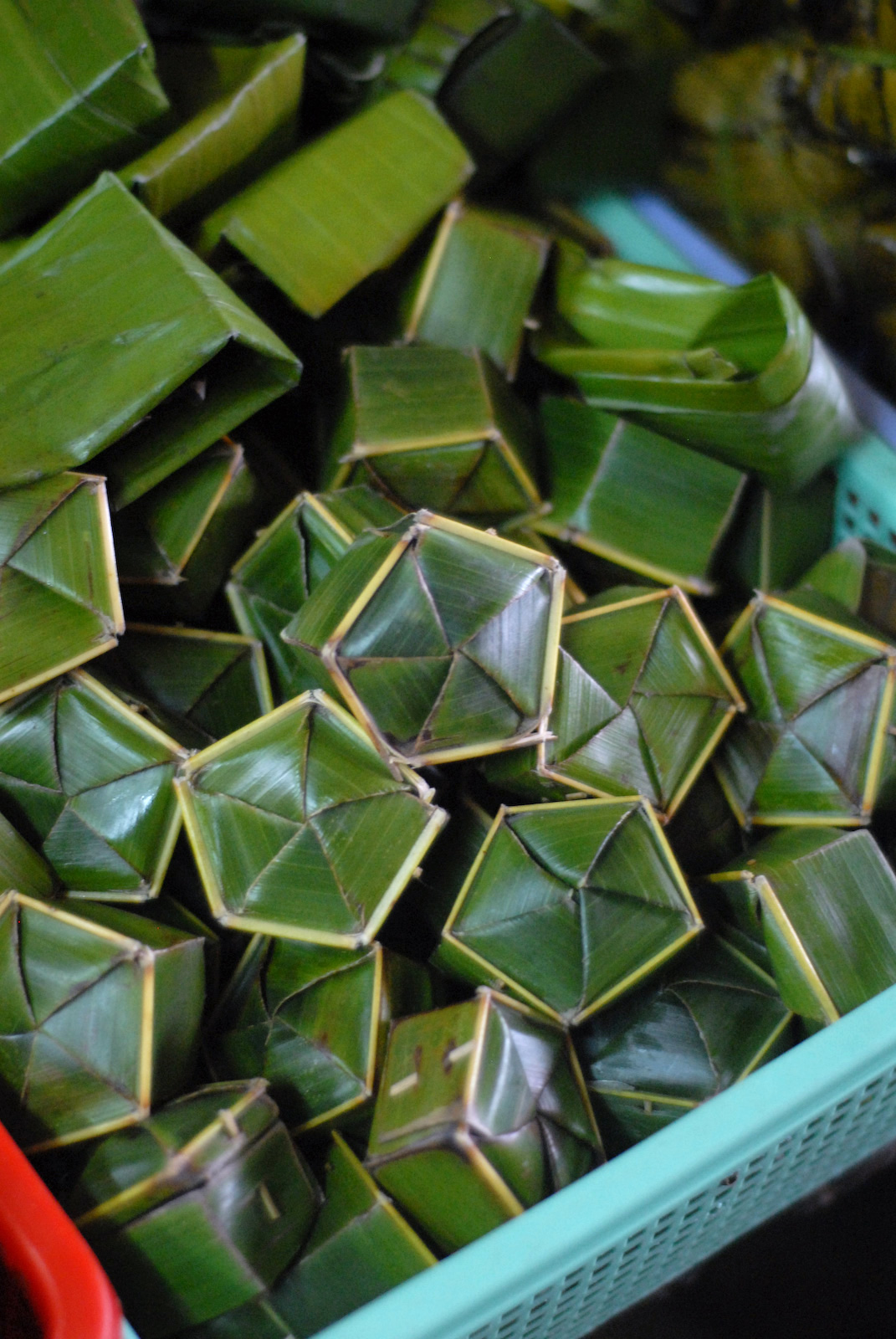 The traditional Vietnamese wedding cake, Phu The. Phu means man and The means woman. The cake is wrapped in palm leaves in a Hue market.